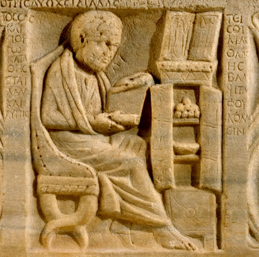 "In the central portion, 21 in. high, by 151/2 in. wide, is seated figure, reading a roll. In front of him is a cupboard, the doors of which are open. It is fitted with two shelves, on the uppermost of which are eight rolls, the ends of which are turned to the spectator. On the next shelf is something which looks like a dish or shallow cup. The lower part of the press is solid. Perhaps a second cupboard is intended. Above, it is finished off with a cornice, on which rests a very puzzling object. I thought that it was intended to represent a wooden tablet covered with wax, and that the reader had laid it open on the top of his bookpress to indicate that he was making notes from the roll which he was reading. Professor Petersen, on the contrary believes that certain lines on the marble, which I admit are tolerably distinct, are intended to represent surgical instruments, and so to indicate the profession of the seated figure. There is a Greek inscription on the sarcophagus but it merely warns posterity not to disturb the bones of the deceased" (Clark, The Care of Books [1901] 40-41).